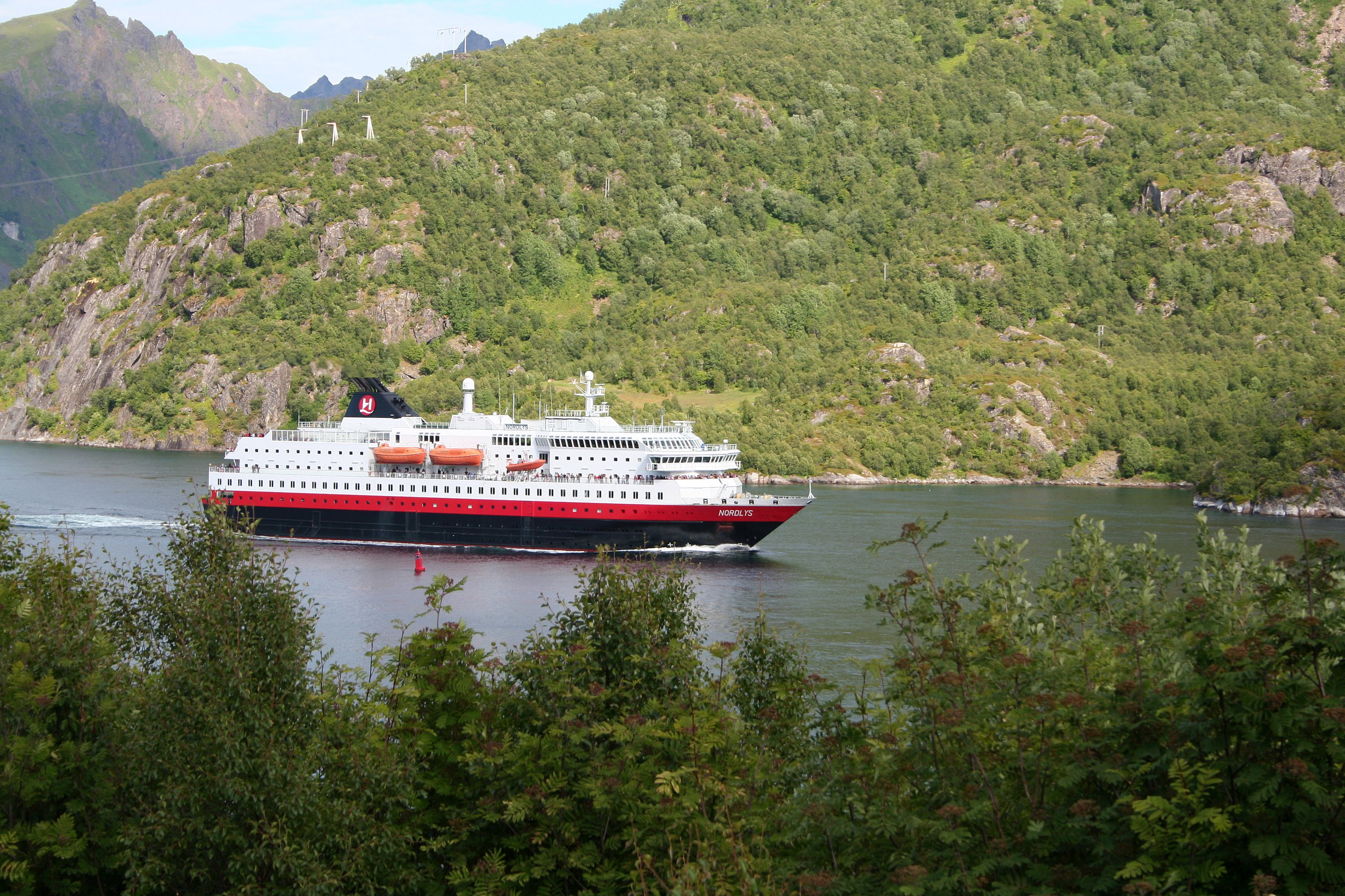 The Hurtigrute MS Nordlys in Raftsundet, Norway, just north of Raftsund Bridge.